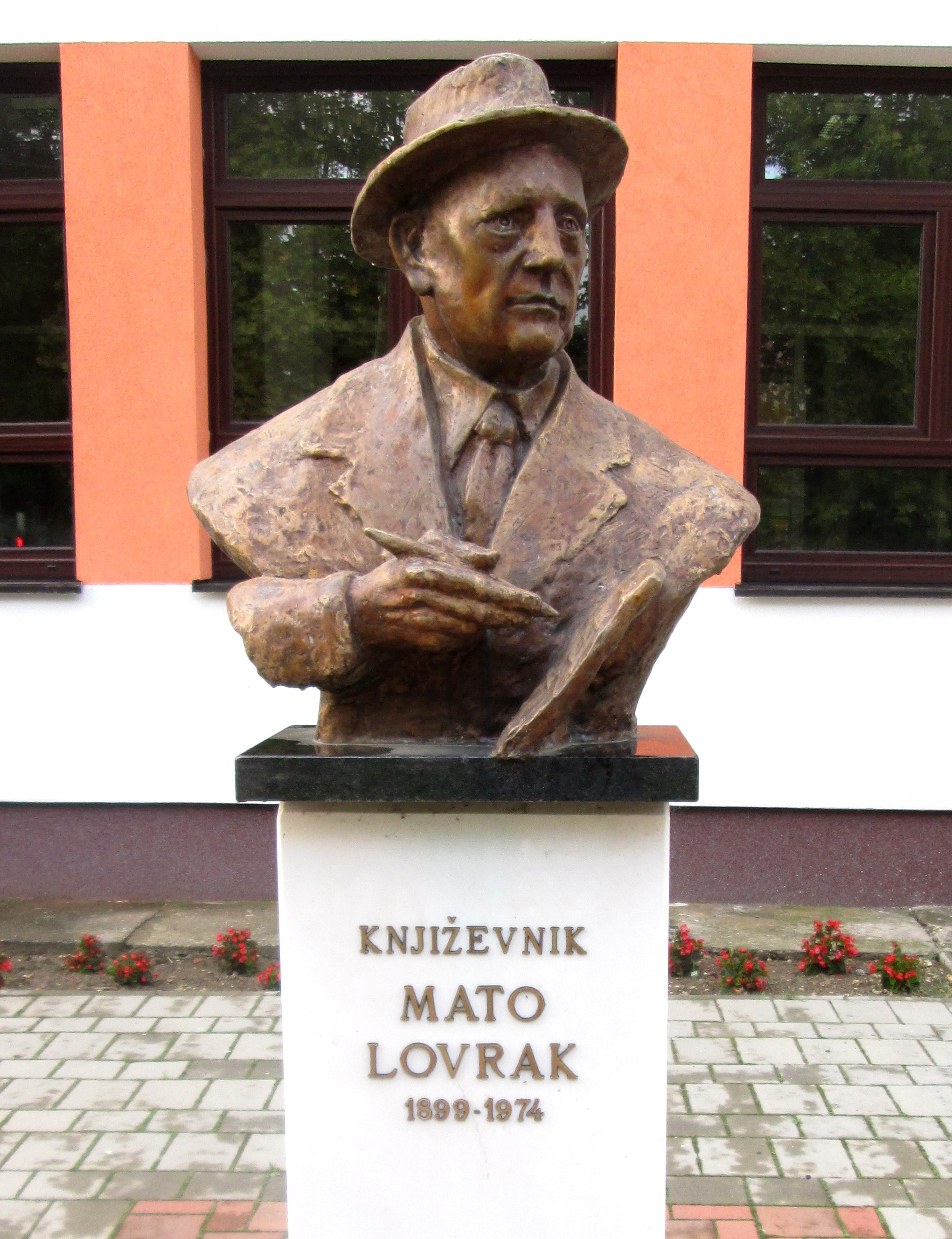 Monument to Croatian children book writer Mato Lovrak in village of Veliki Grdjevac, Croatia